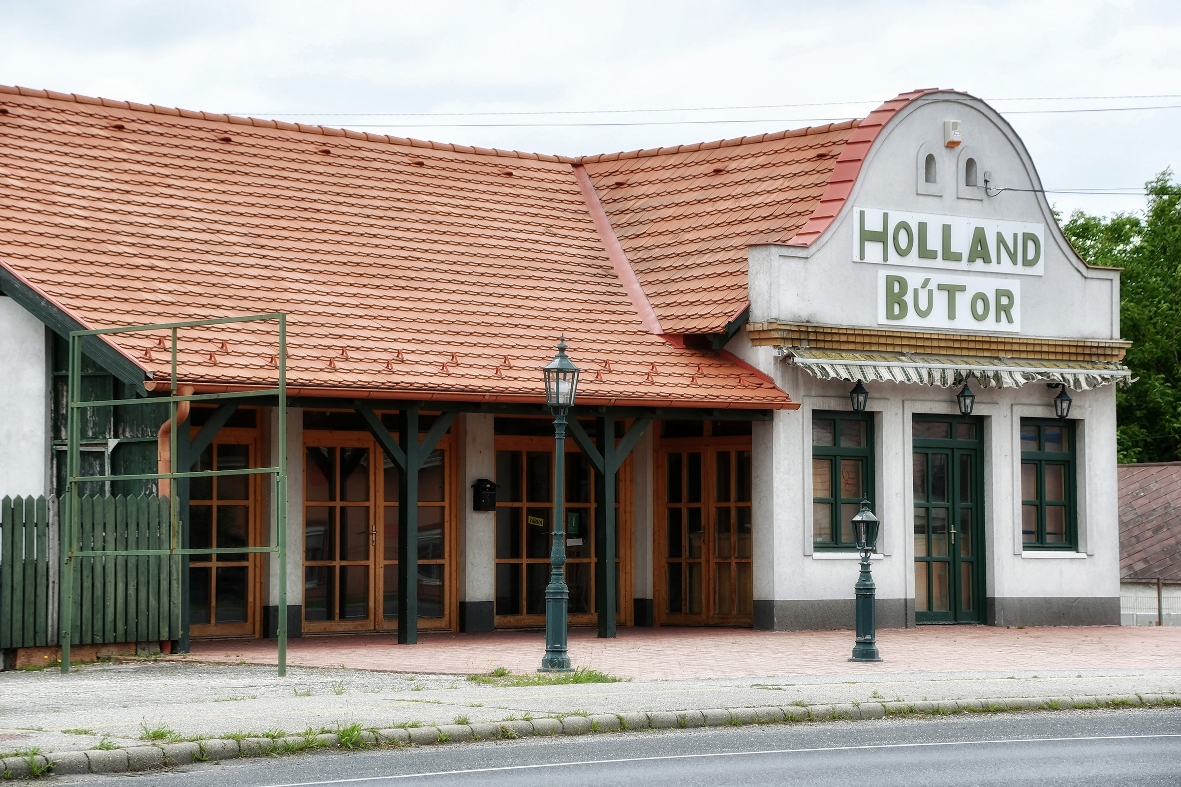 Store in Abda, Hungary